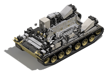 Manned Ground Vehicle cutaway